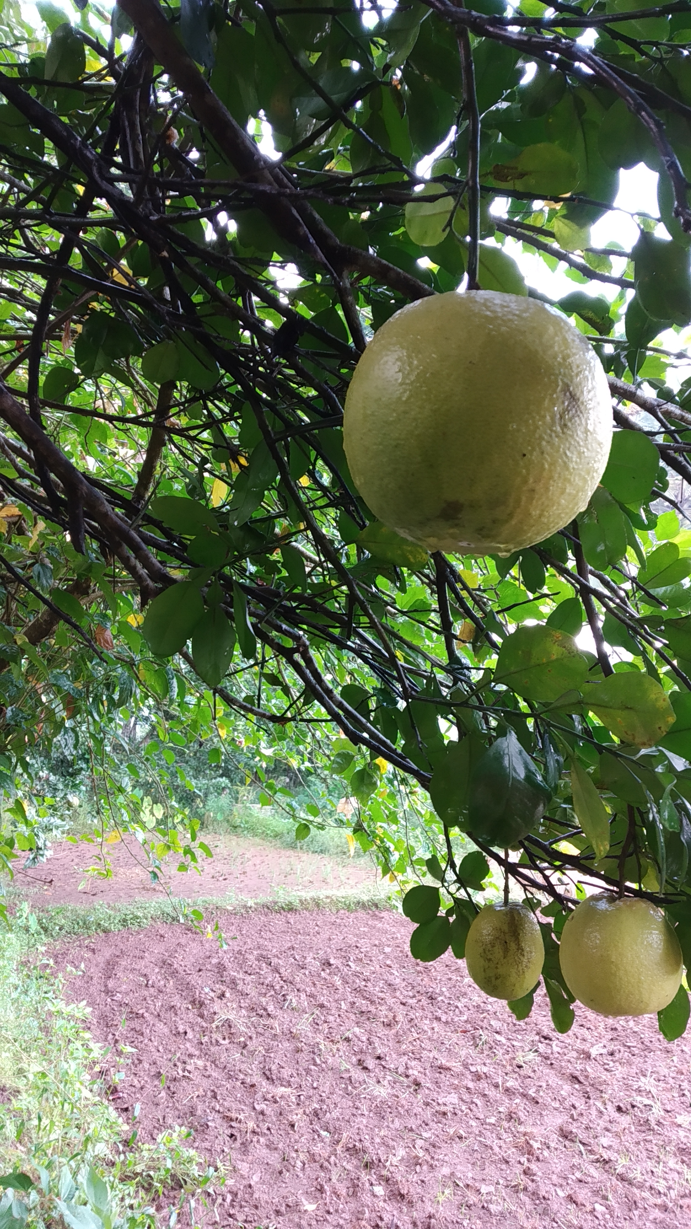 Fruit Tree From Kokan